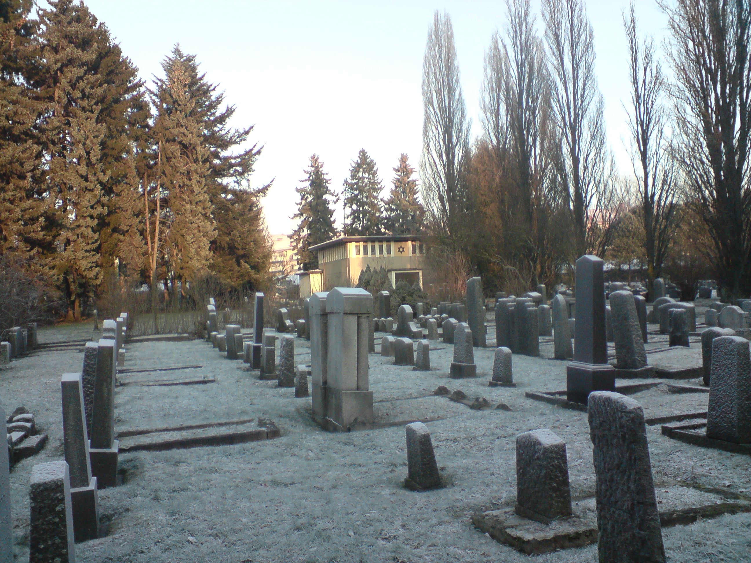 From the Jewish cementry at Østre gravlund in Oslo